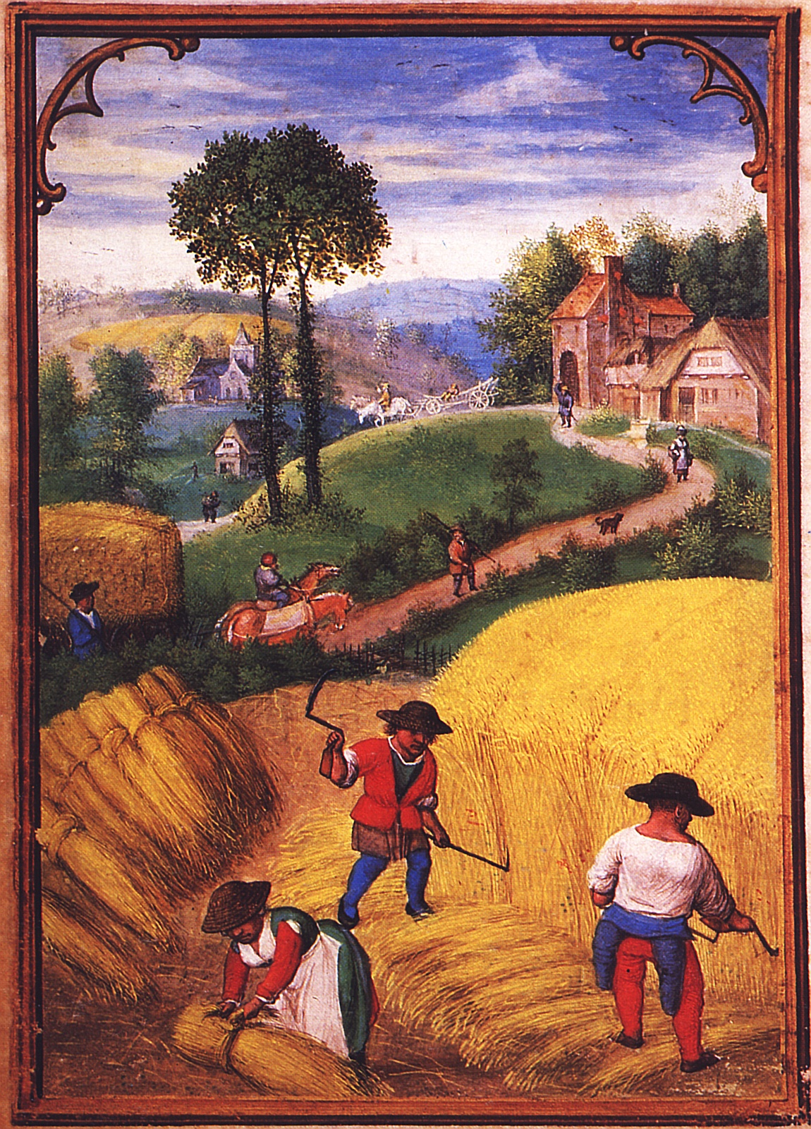 Labors of the Months: August, from a Flemish Book of Hours (Bruges)